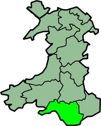 The pre-1974 counties of Wales, with Glamorgan highlighted.